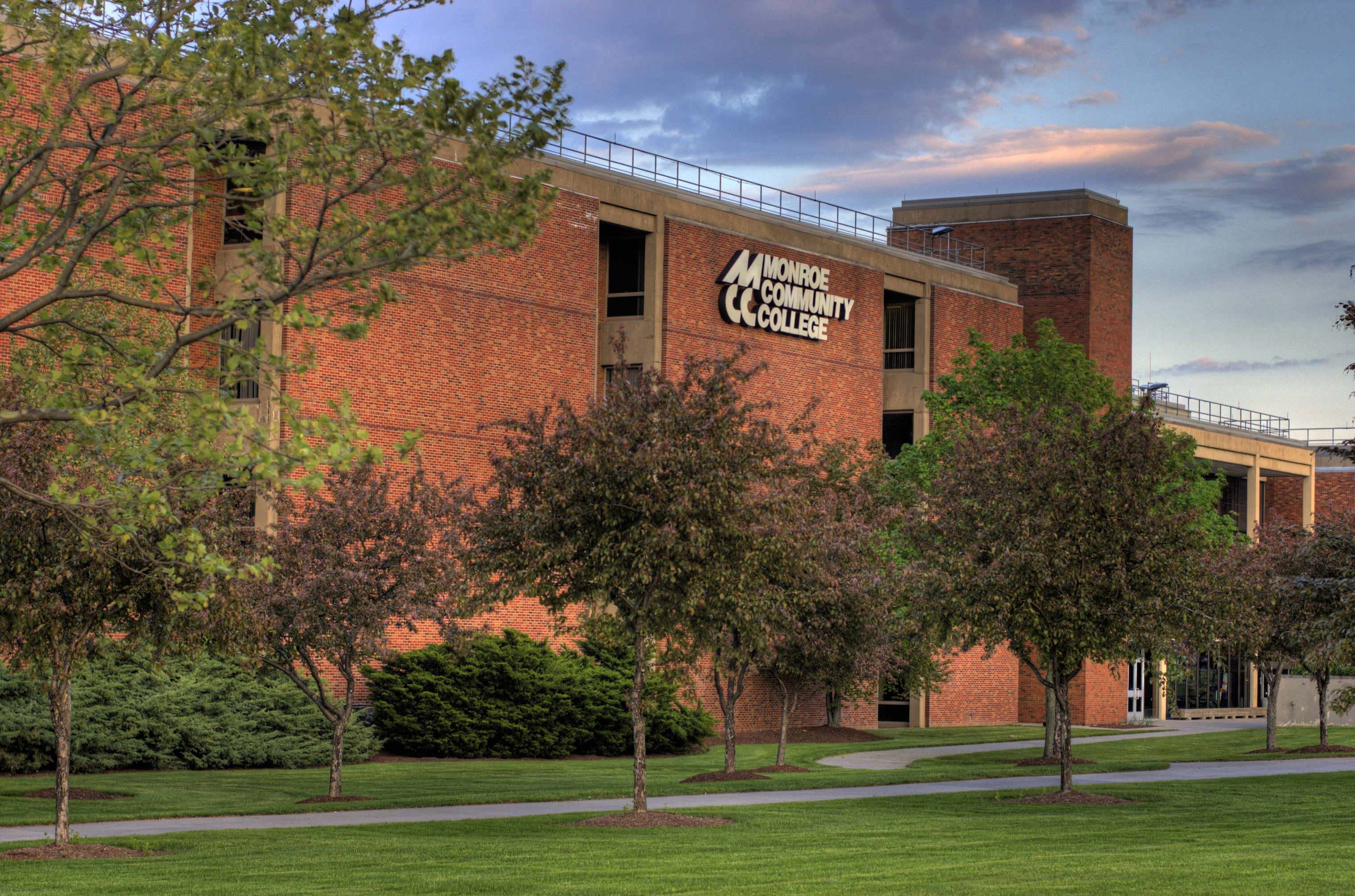 Monroe Community College Brighton Campus Main